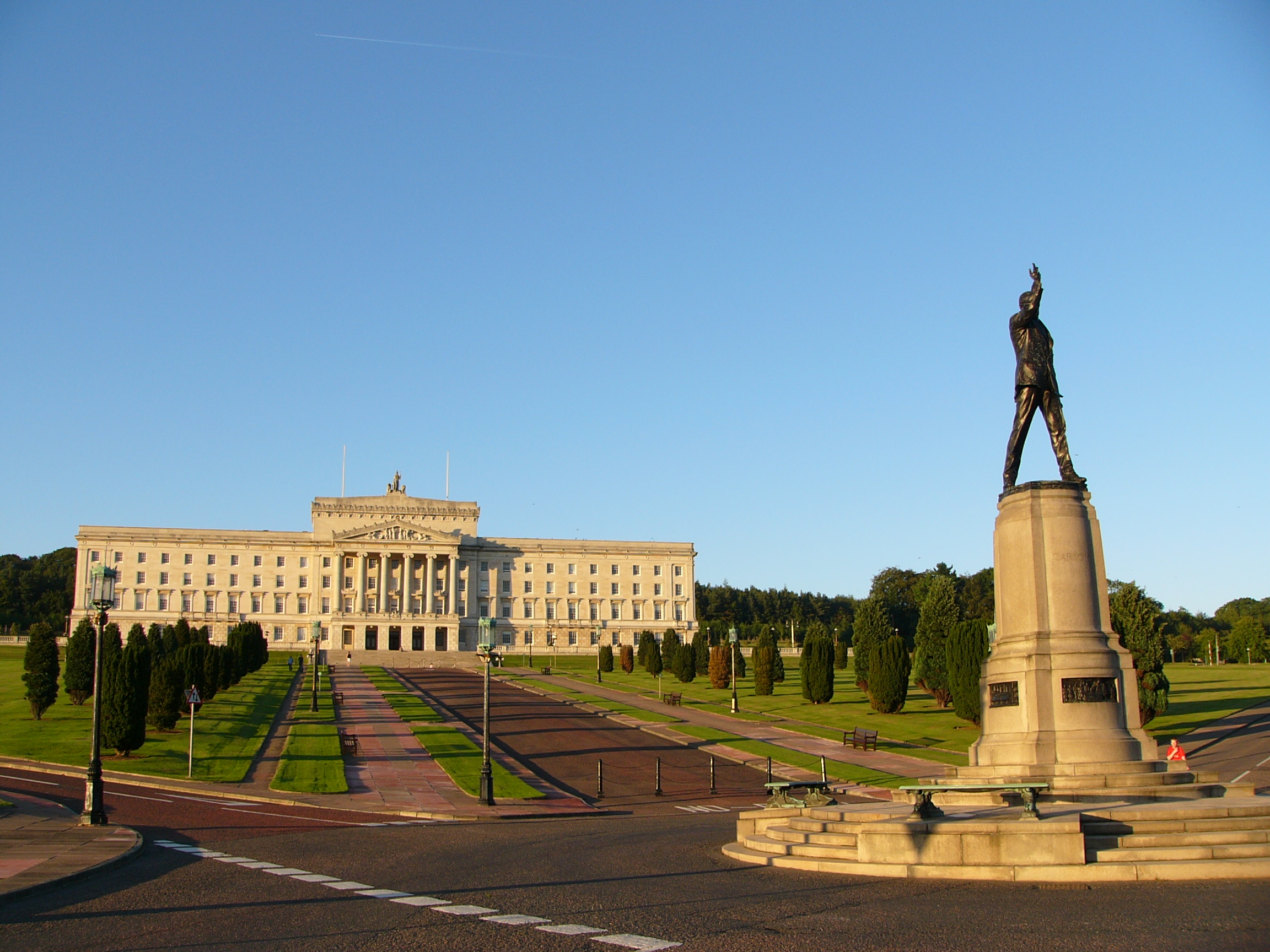 Stormont with Sir Edward Carson Statue